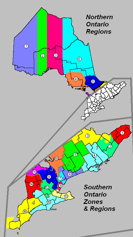 Map